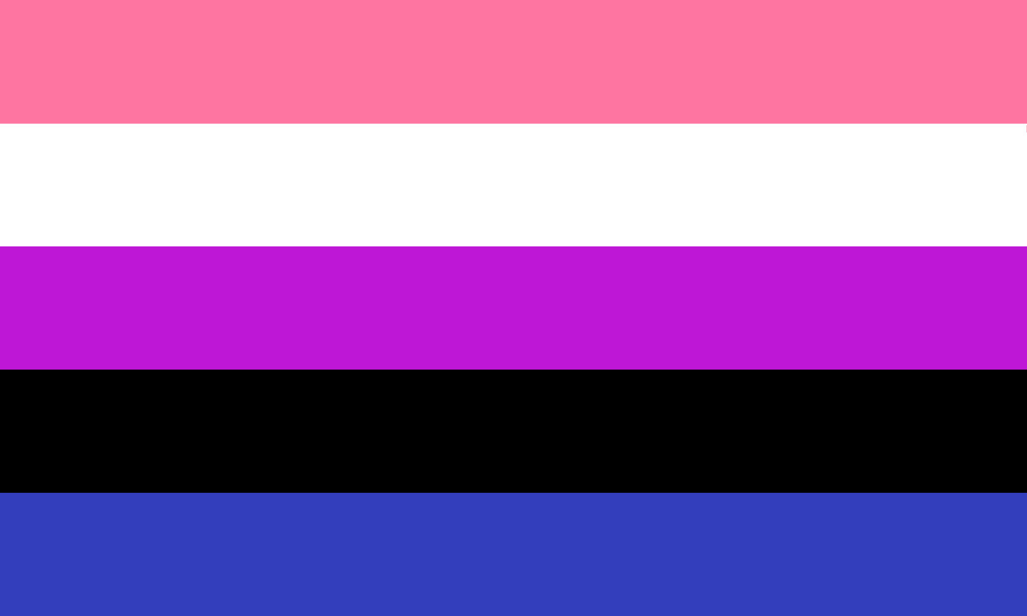 This flag represents the fluctuations and the flexibility of gender in genderfluid people. The Pink represents femininity. The White represents the lack of gender. The Purple represents the combination of masculinity and femininity. The Black represents all genders, including third genders. The Blue represents masculinity.